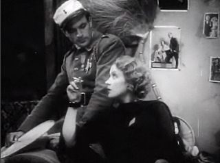 Cropped screenshot of Gary Cooper and Marlene Dietrich from the trailer for the film Morocco